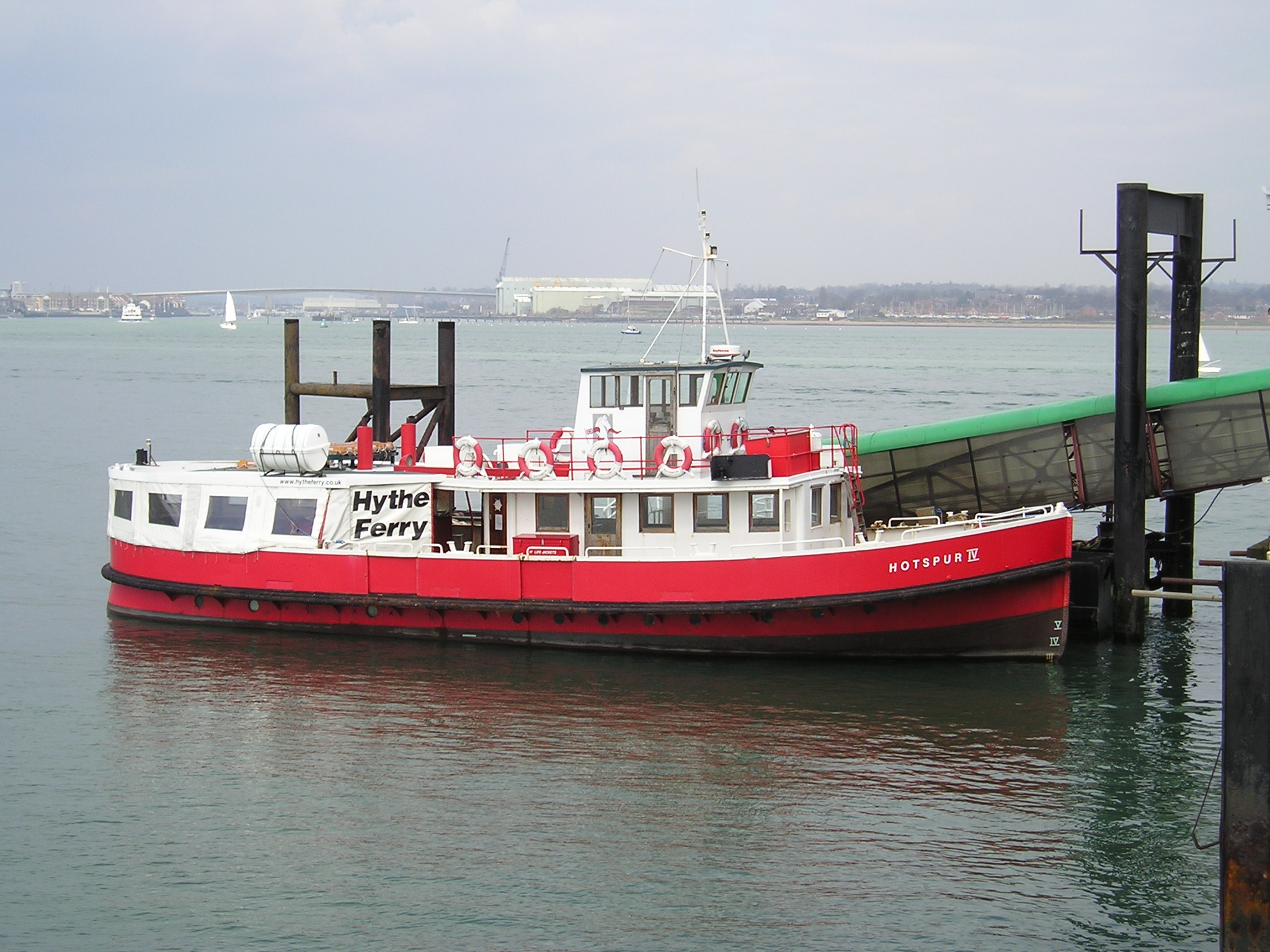 Hythe Hotspur IV at Hythe Pier, Hampshire 1946 Built by the Rowhedge Ironworks. 64 ft long 350 passengers (now 300) Main engine: Gardner diesel, re-engined between 1968 and 1971 with more powerful Kelvin diesel, increasing the speed from 8.5 to 9.5 knots.